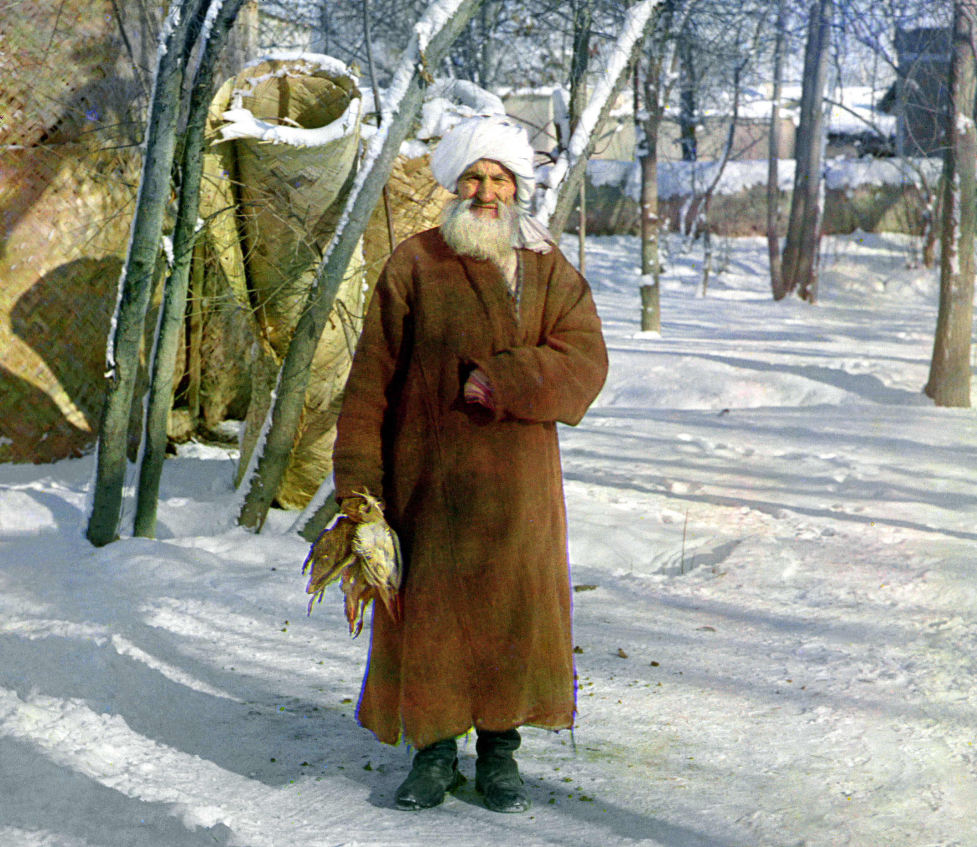 Elderly Sart man (Babaika), Samarkand